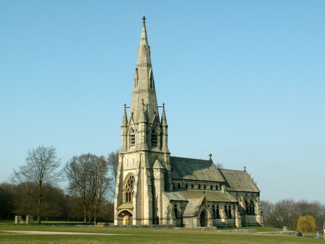 St Mary's parish church, Studley Royal, North Yorkshire